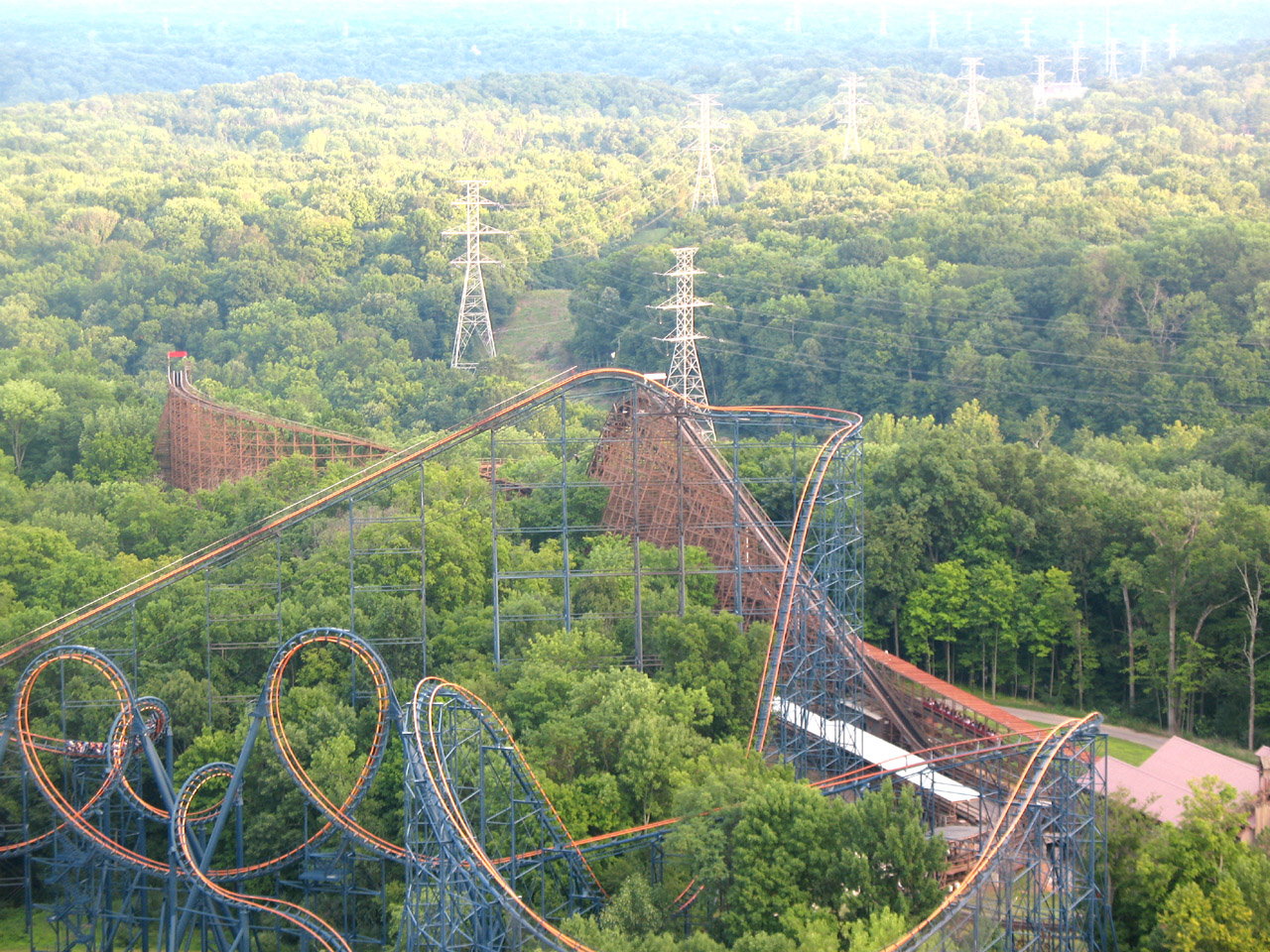 The Beast at Kings Island. Taken August 2007